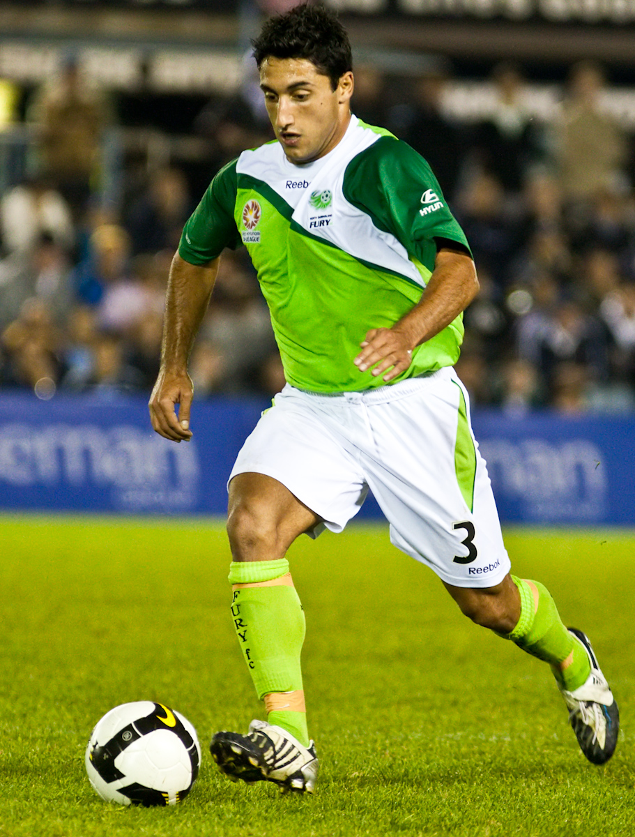 Chris Tadrosse playing in a pre-season match for the North Queensland Fury against Sydney FC.